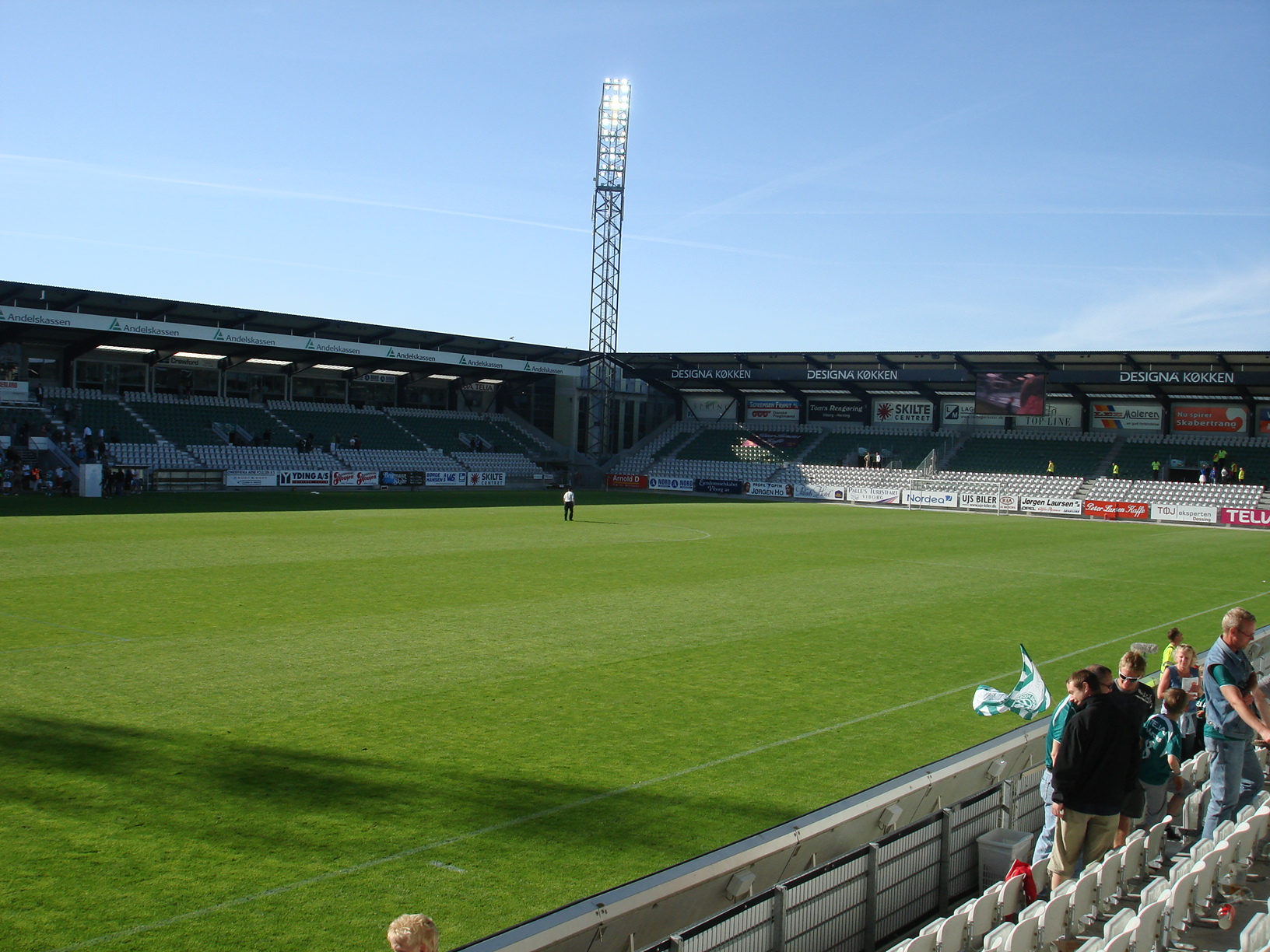 Viborg Stadion in Viborg, Denmark